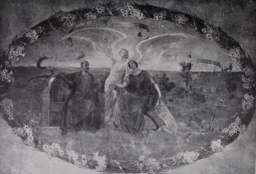 Photograph of ceiling mural by Dora Wheeler Keith, Woman's Building, 1893 World's Columbian Exposition, Chicago Illinois.